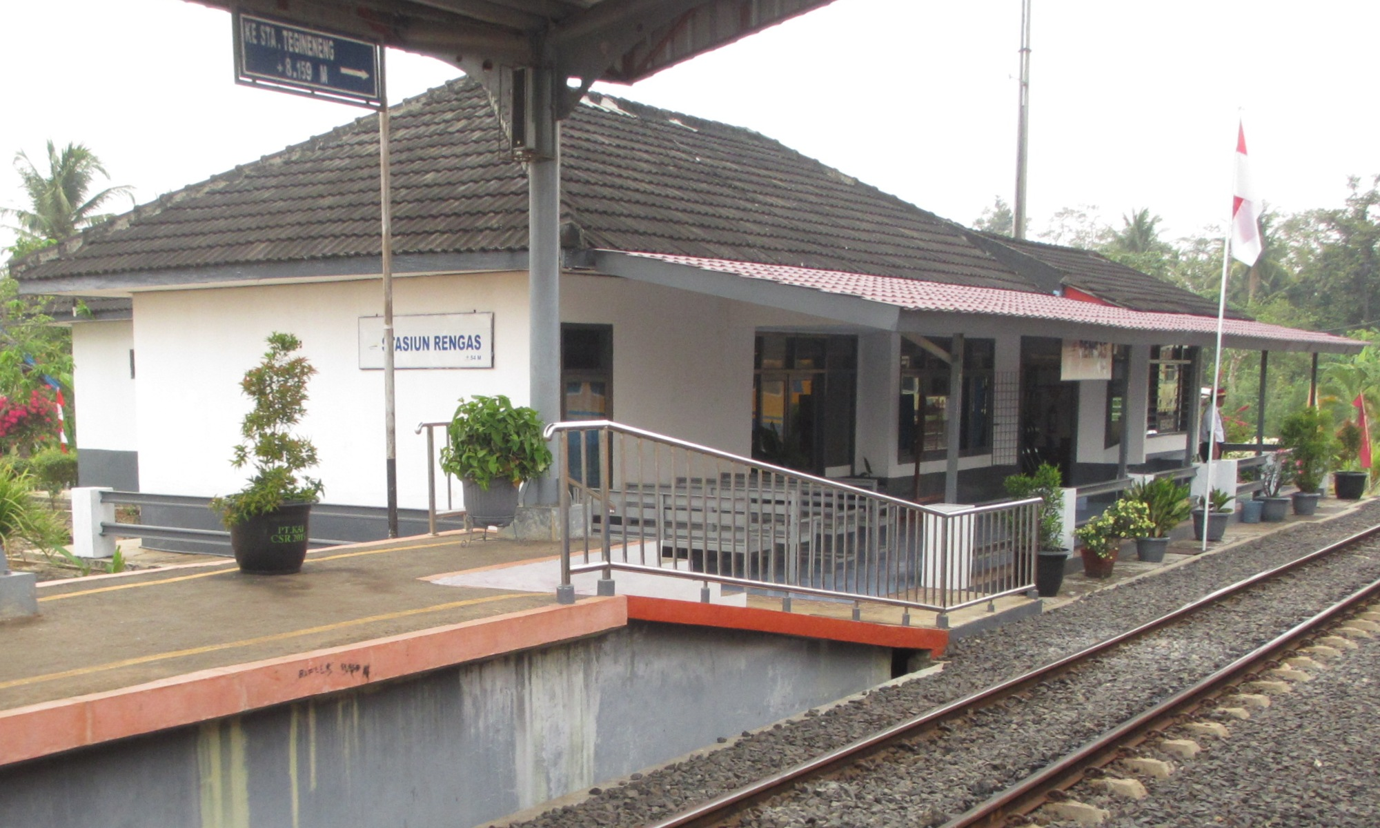 Rengas Railway Station.